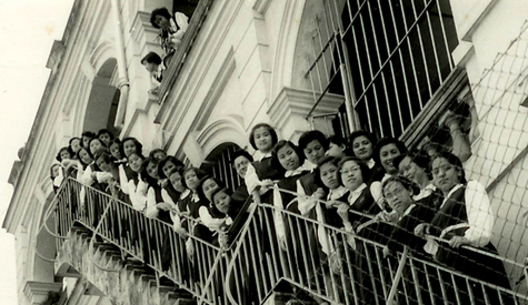 The school uniform of St. Francis' Canossian College before 1950s.